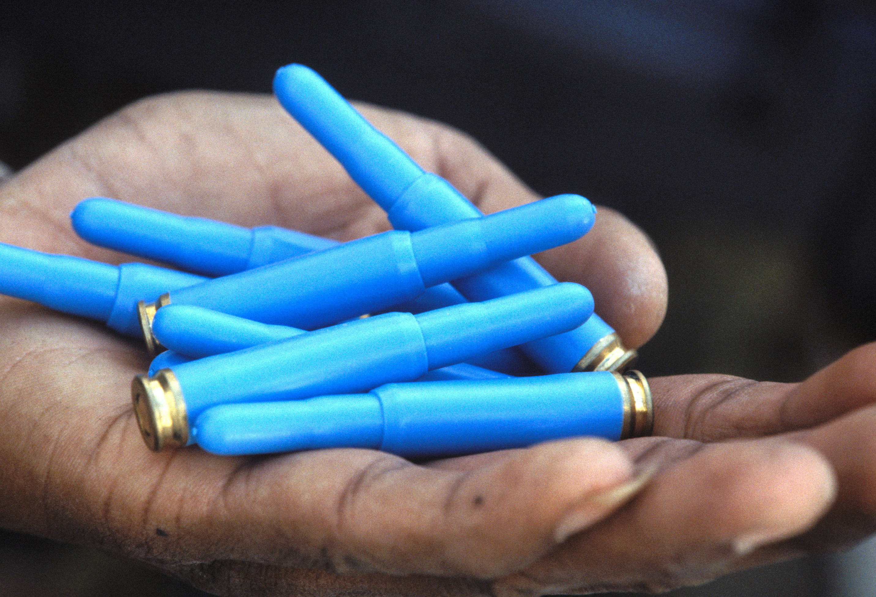 Rubber bullets, as used by Nepalese contingent of United Nations forces in Somalia Released to Public ID: DAST9601249 Service Depicted: Army A Nepalese soldier displays a handful of rubber bullets used by his Army's Quick Reactionary Force. The QRF provides foot patrols and guards convoys of United Nations Staff members going to their homes.